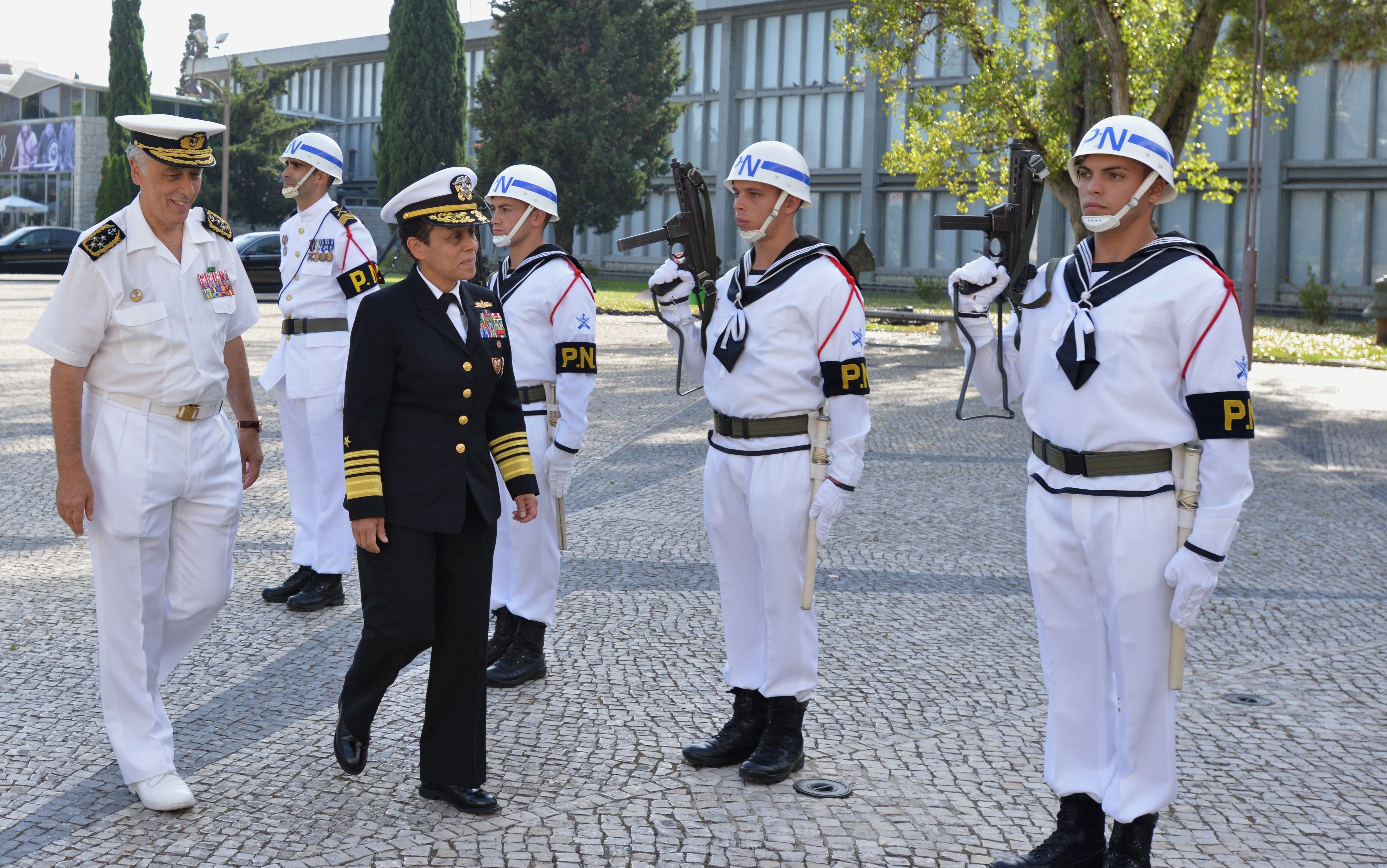 Admiral Michelle Howard, commander Allied Joint Force Command Naples reviewing the Portuguese Polícia Naval.